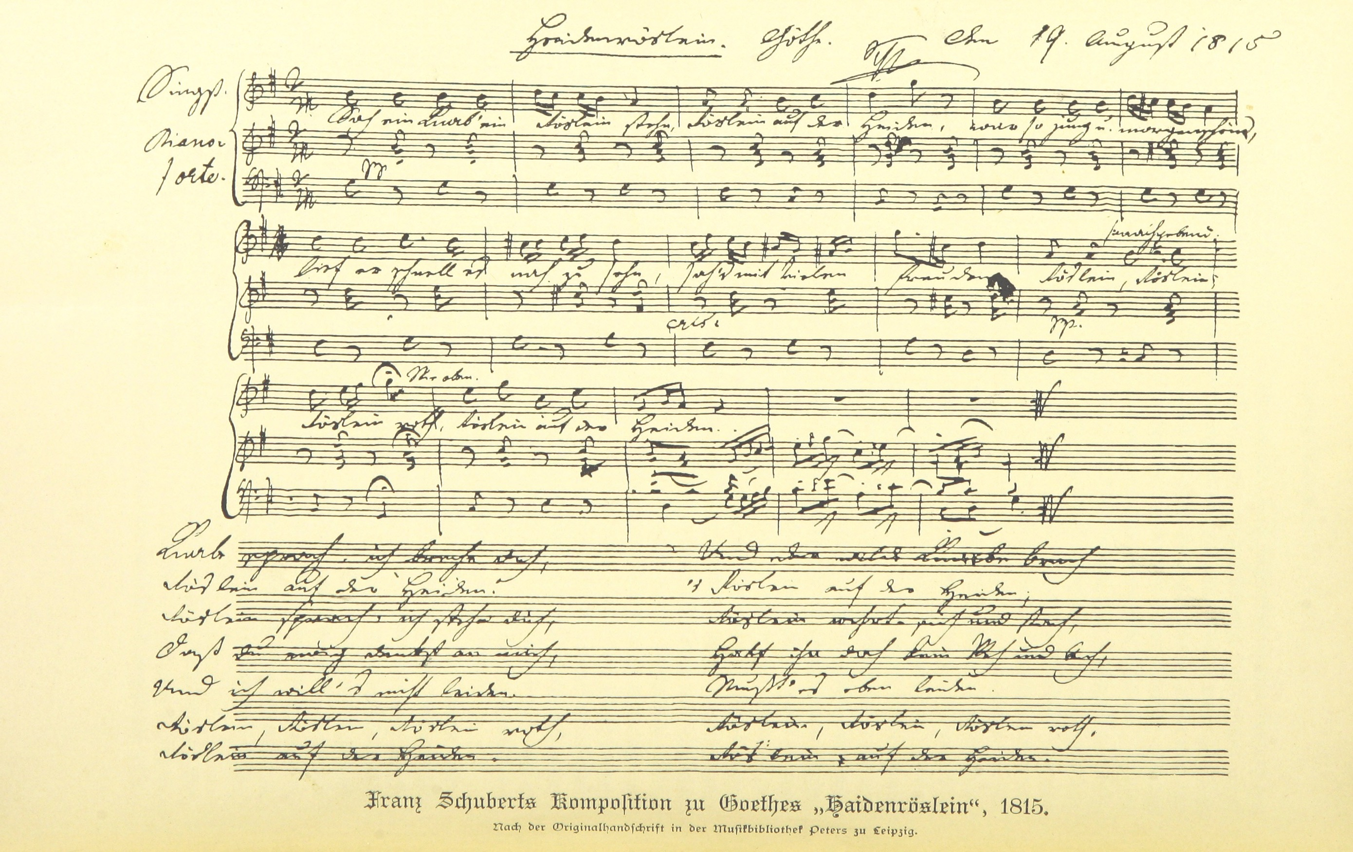 Image extracted from page 636 of Das deutsche Volkstum ... Herausgegeben von Dr. H. Meyer. Mit 30 Tafeln ... Neuer Abdruck', by MEYER, Hans Heinrich Joseph. Original held and digitised by the British Library. Copied from Flickr. Note: The colours, contrast and appearance of these illustrations are unlikely to be true to life. They are derived from scanned images that have been enhanced for machine interpretation and have been altered from their originals.